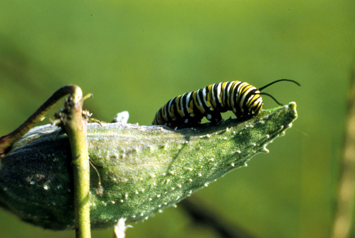 A brightly coloured monarch caterpillar Danaus plexippus